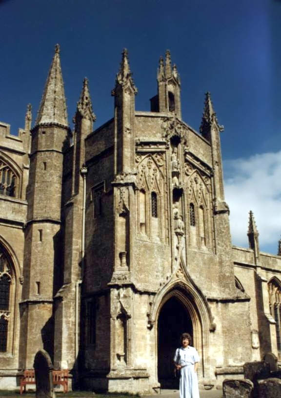 Northleach Parish Church, SS Peter and Paul, South Porch 1480AD.